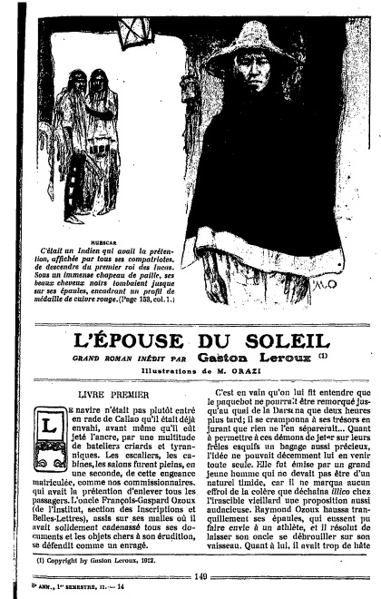 First page of opera "The Bride of the Sun" by Gaston Leroux in the newspaper "Je sais tout" dated March 15, 1912